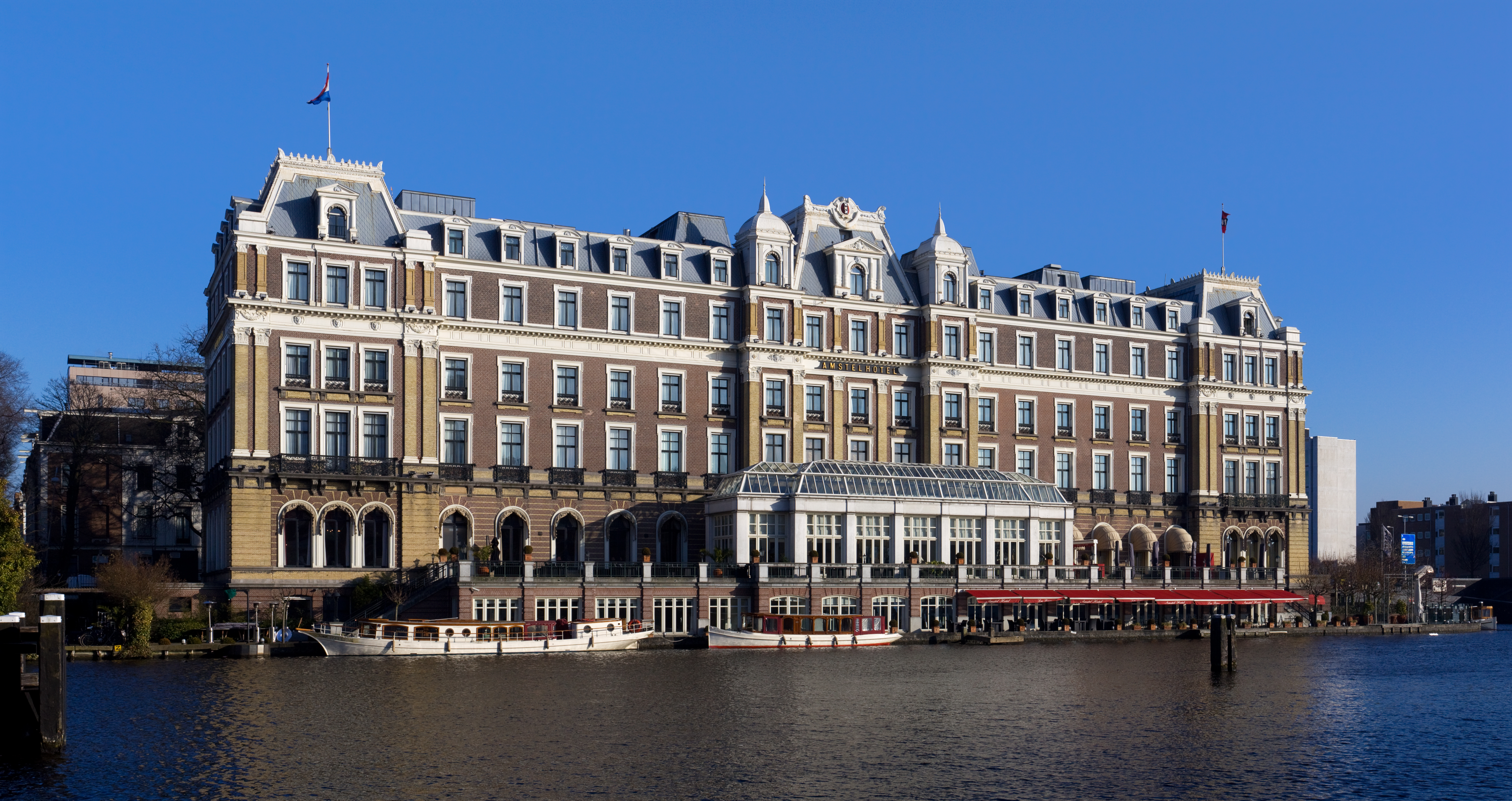 The Amstel Hotel in Amsterdam, the Netherlands along the banks of the river Amstel.